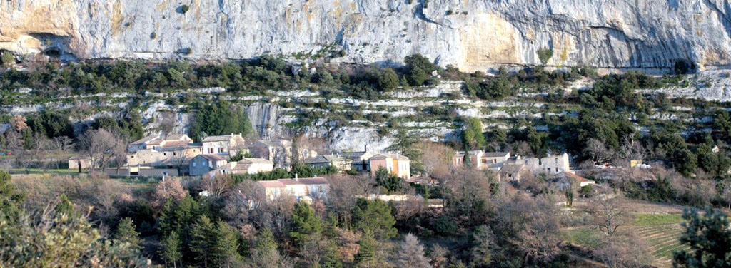 Village of Lioux (84220), France